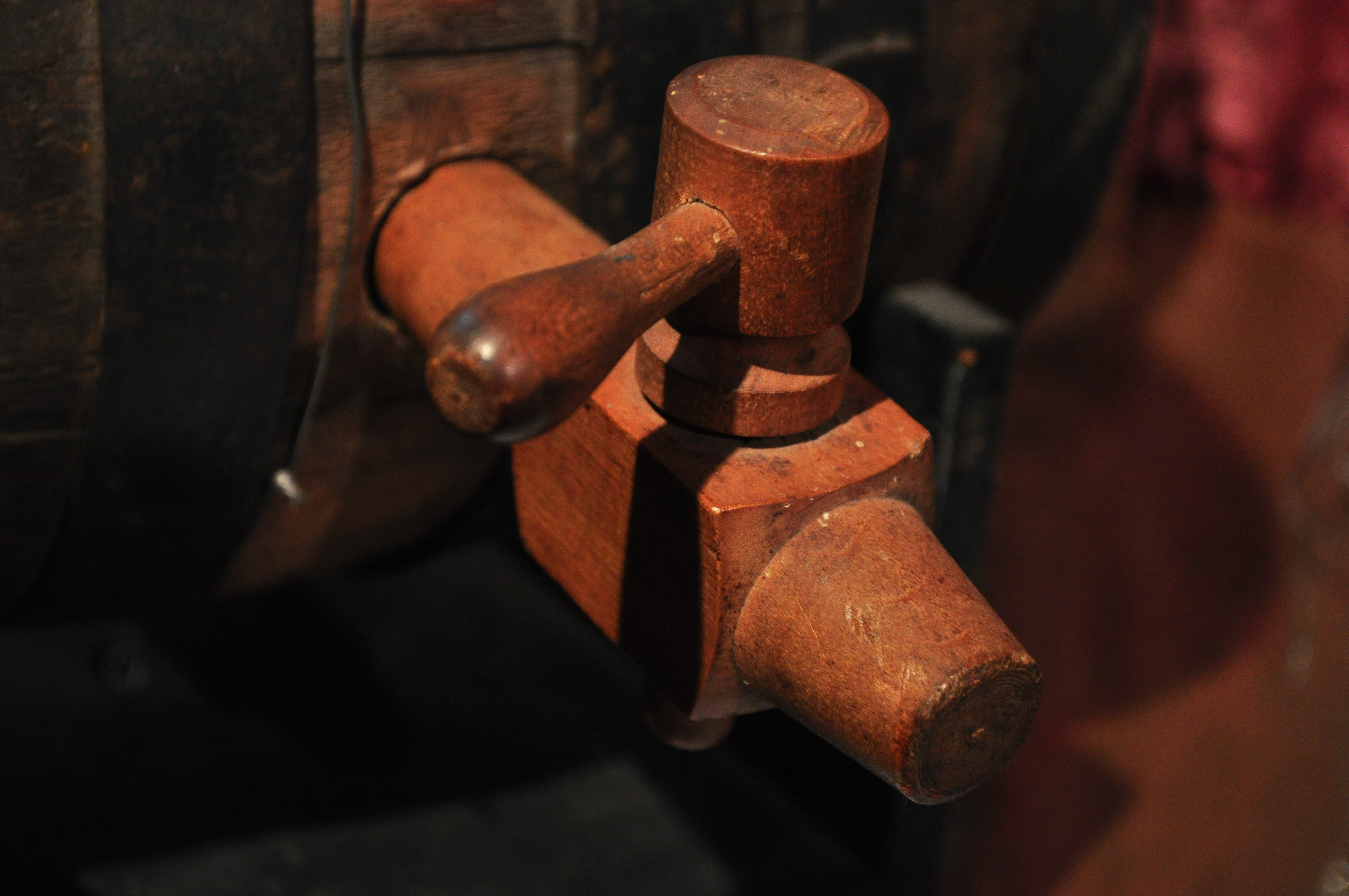 Prohibition-era spigot (c. 1925). From the collection of the Eastside Heritage Center, Bellevue, Washington. Cask and spigot were confiscated in Highland, Washington, a settlement between present-day Bellevue and Renton. Photo taken at "Stills in the Hills", a 2012 exhibit about bootlegging during the Prohibition era in the United States, at White River Valley Museum, Auburn, Washington.